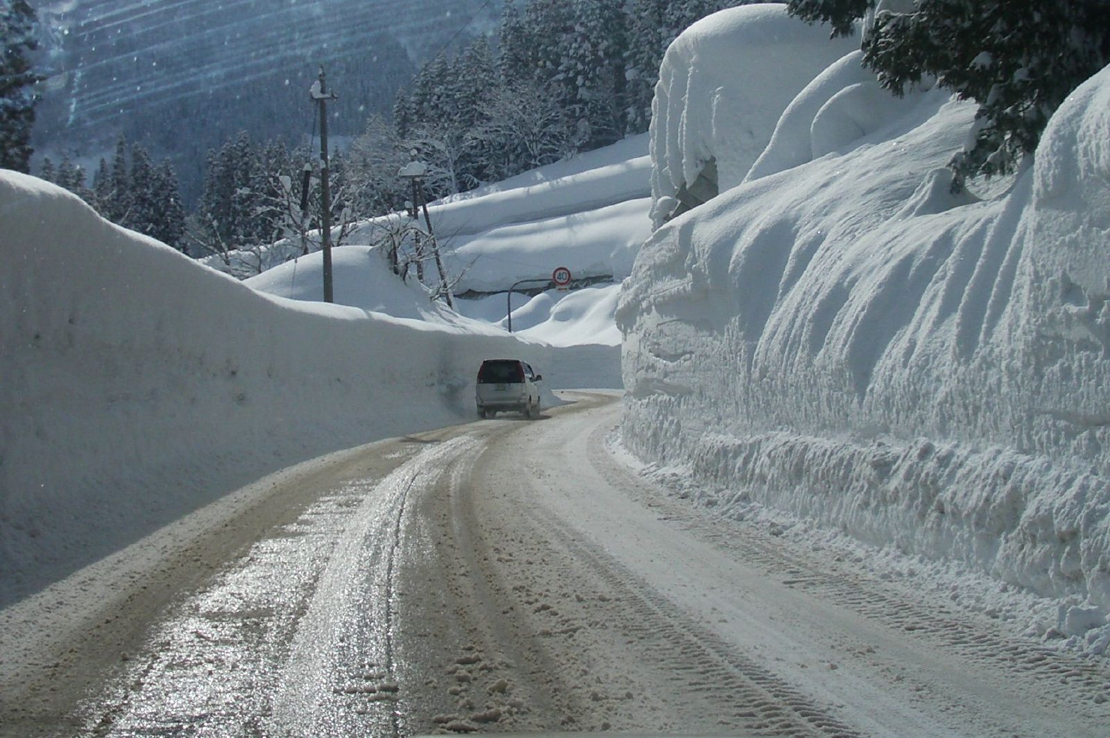 near Ainokura Gassho village (worldheritage)